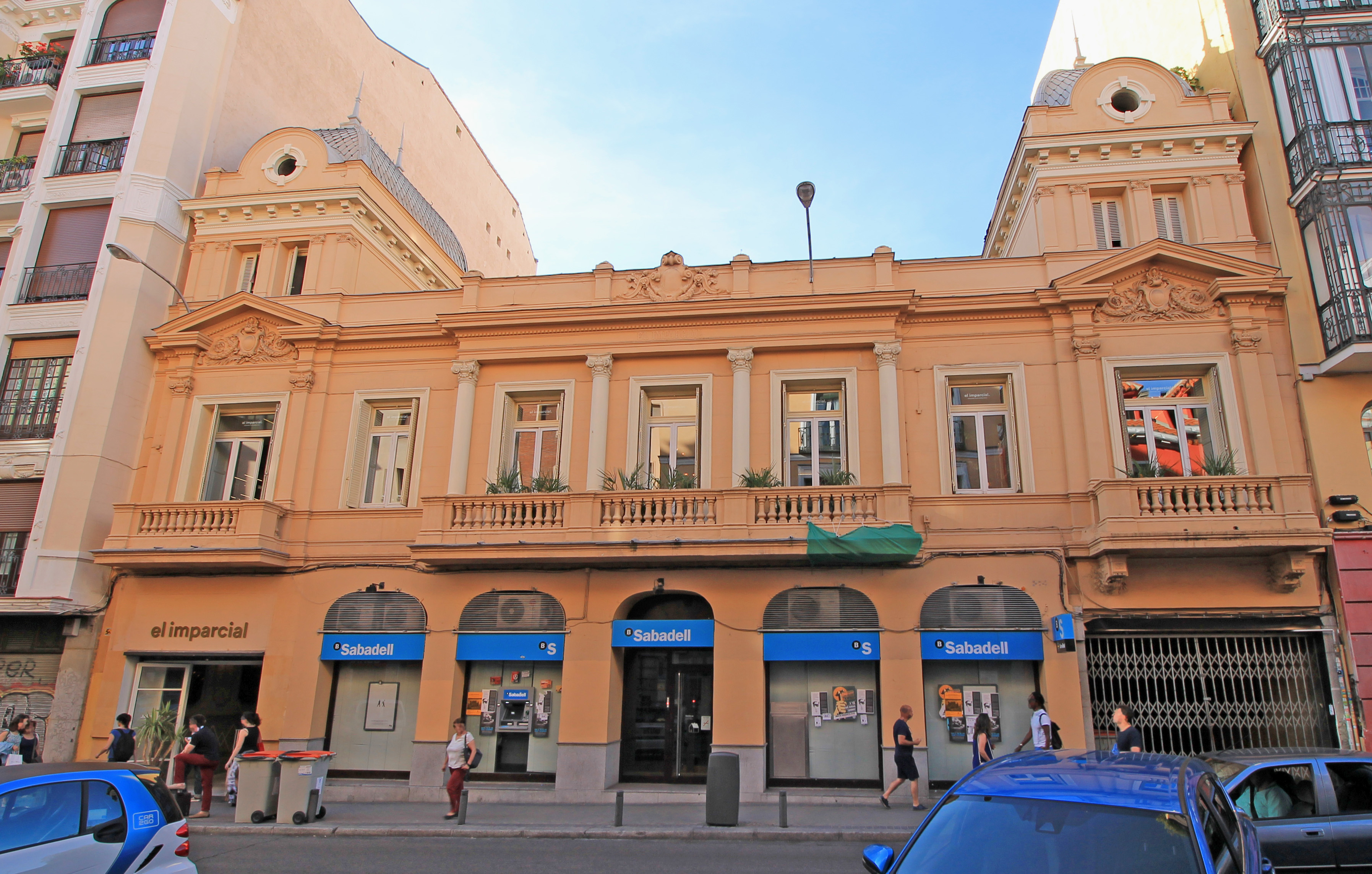 Former headquarters of El Imparcial newspaper at 4th Calle del Duque de Alba (street) in Centro district in Madrid (Spain). They were designed in 1911 by architect Daniel Zavala Álvarez and built from 1911 to 1913.